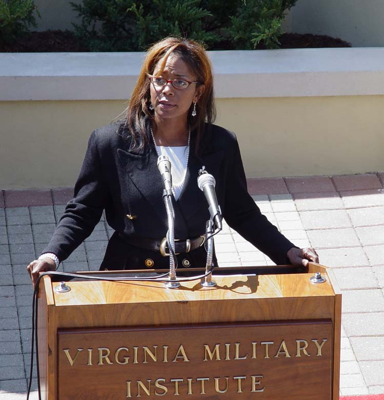 Donzaleigh Abernathy is the Keynote Speaker at Virginia Military Institute 2003 for the "Jonathan Daniels Life Celebration."